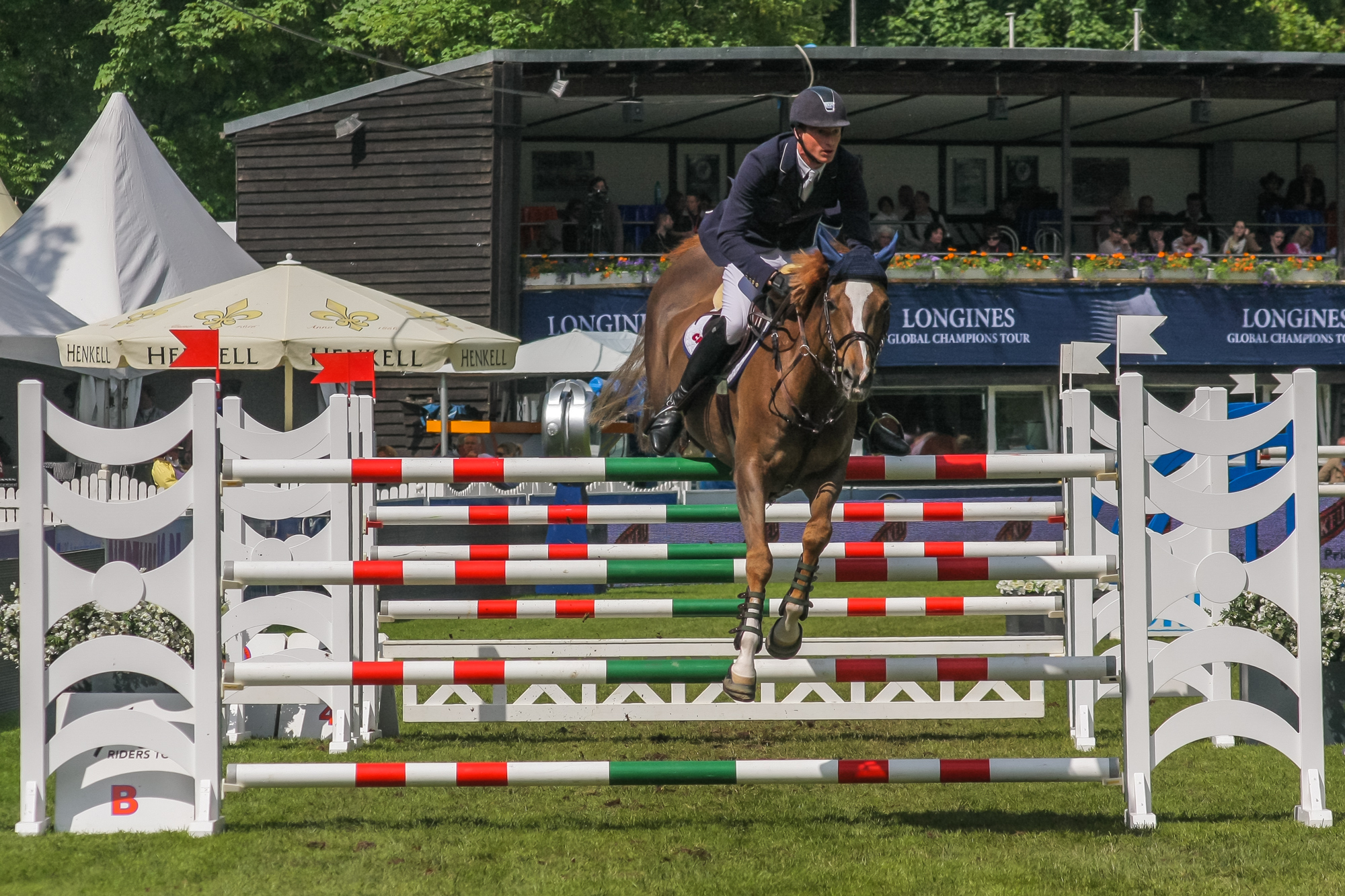 German show jumper Daniel Deußer mit Mouse at the international Pfingsturnier 2013 in Wiesbaden